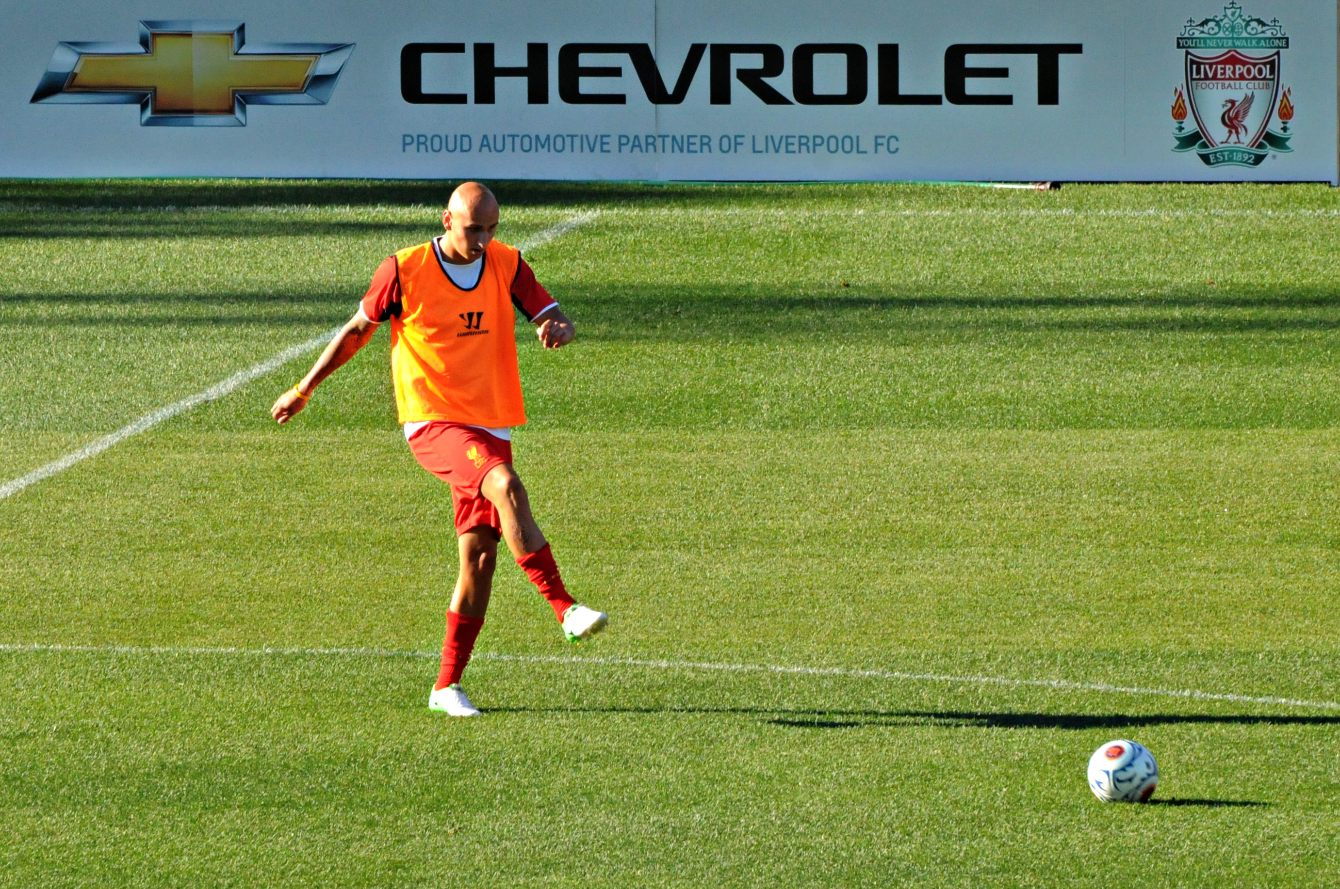 Jonjo Shelvey before the game between Liverpool and AS Roma at Fenway Park, 25 July 2012.